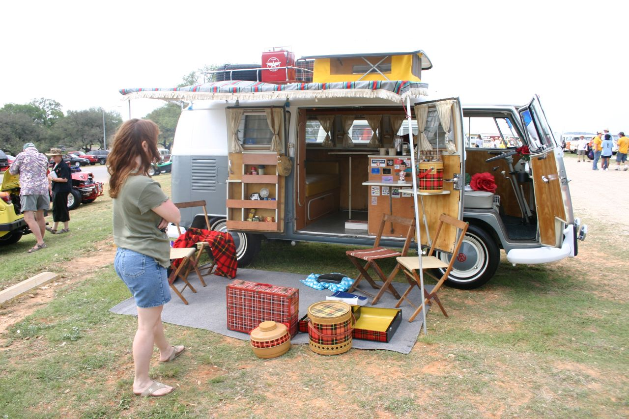 Taken at Texas VW Classic auto show.